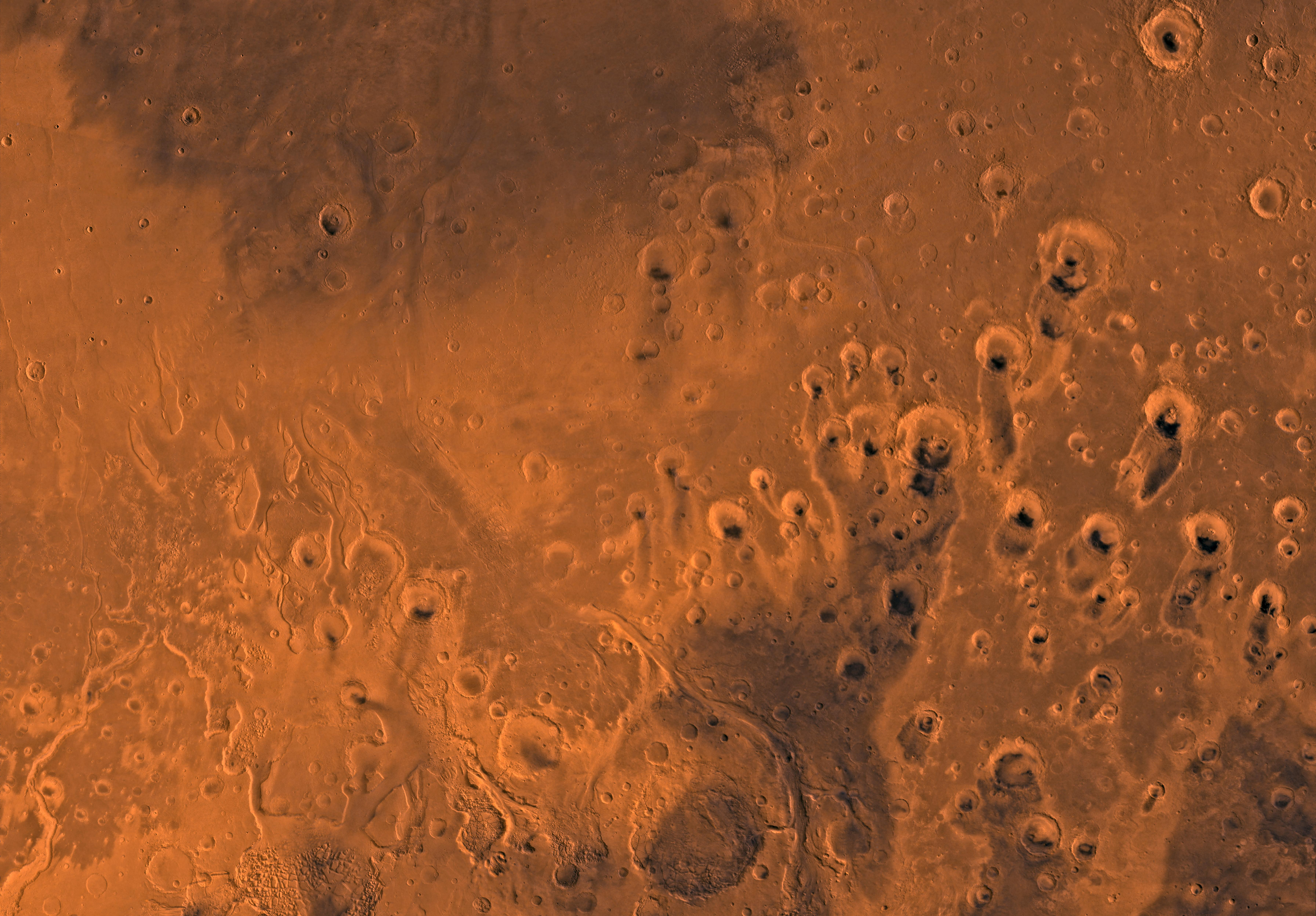 PIA00171: MC-11 Oxia Palus Region Mars digital-image mosaic merged with color of the MC-11 quadrangle, Oxia Palus region of Mars. Heavily cratered highlands of the southeastern two-thirds are cut by several large outflow channels. These channels terminate at the dark large depression, Chryse basin, which contain relatively smooth plains in the northwestern part. Latitude range 0 to 30 degrees, longitude range 0 to 45 degrees.